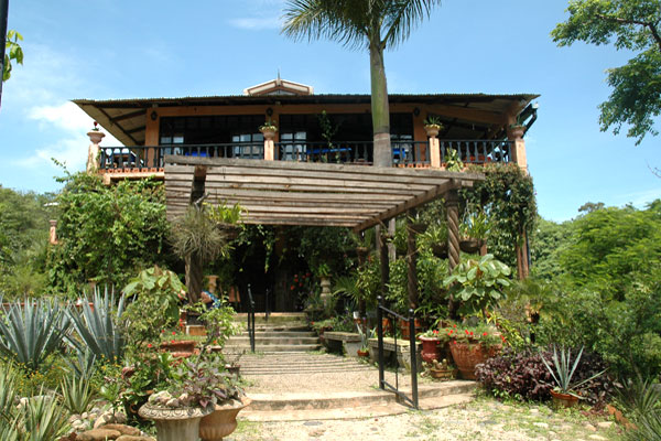 Visitor Center, Vallarta Botanical Gardens